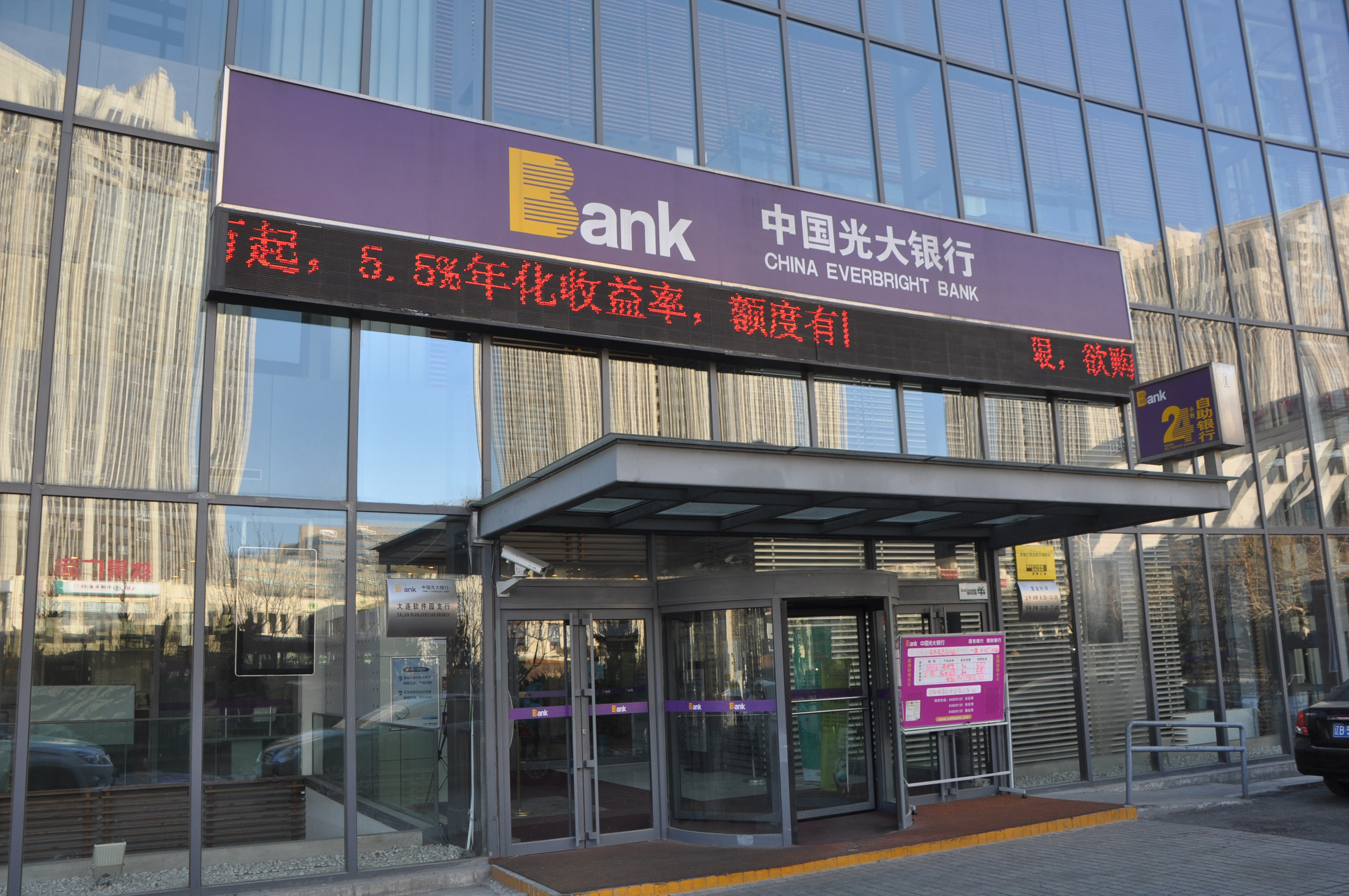 China Everbright Bank, Software Park Branch, Dalian City, Liaoning Province